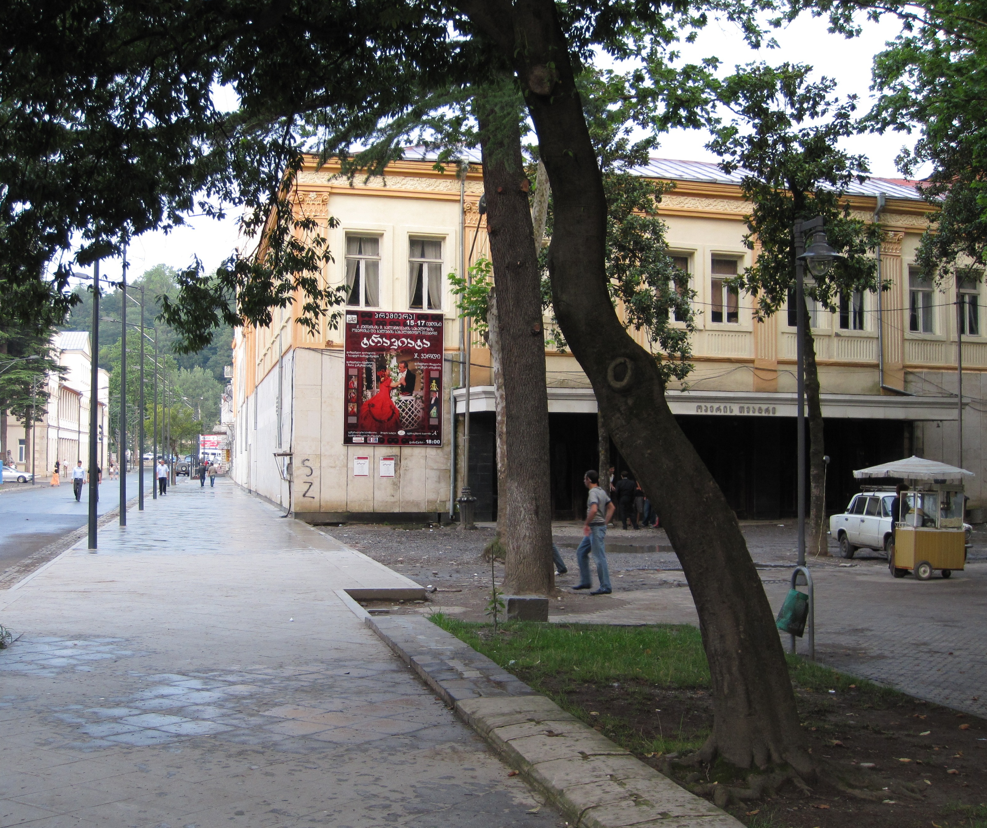 Kutaisi Opera Theatre